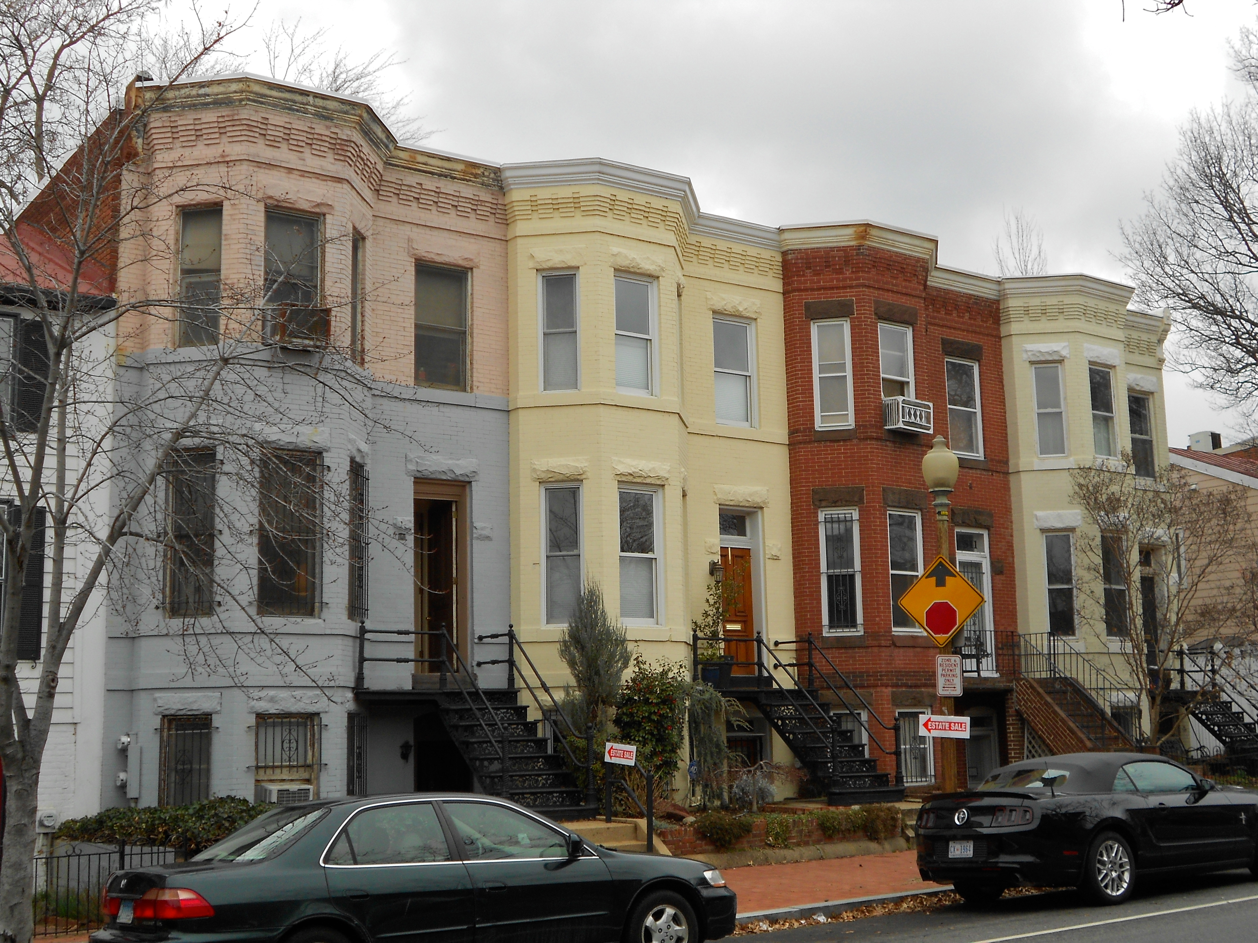 Houses on G Street SE in the Capitol Hill Historic District on the National Register of Historic Places. This is in the Southeast Quadrant of Washington DC